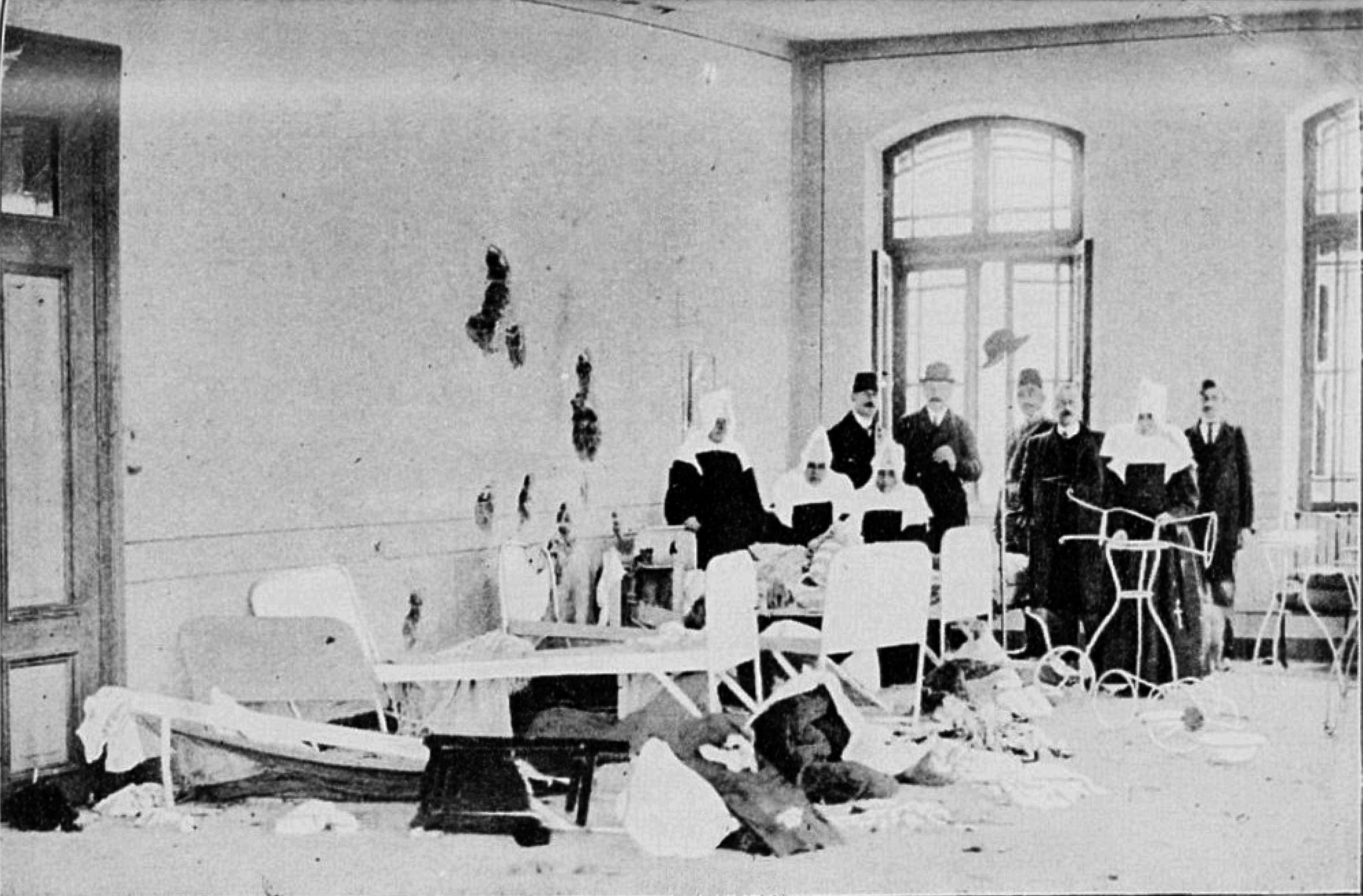 17 March 1912 Austria Counsulate visiting Agram Nun's bombed residance at Adrinople